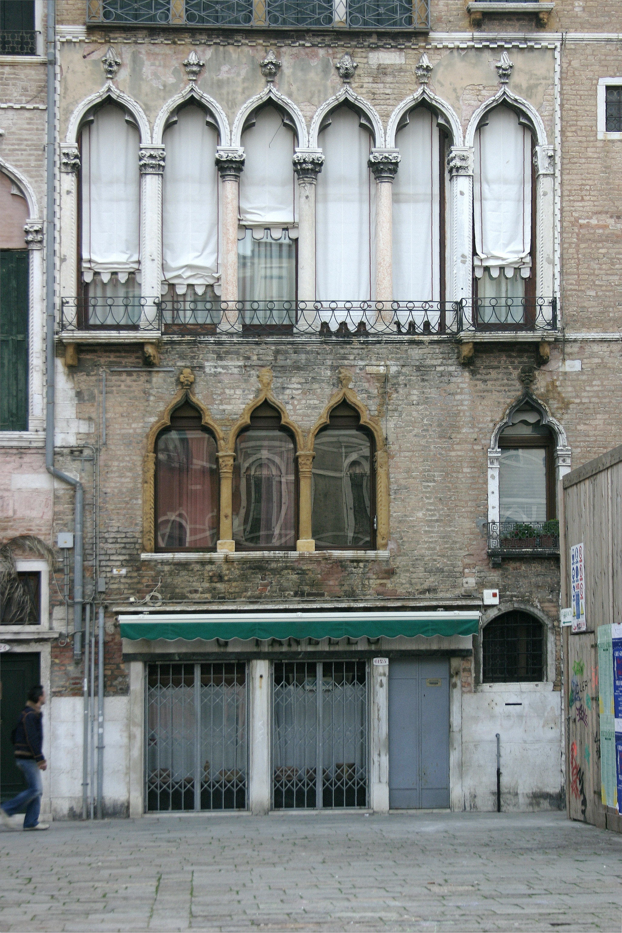 Venice – Particular windows of Palazzi Donà in the Campo Santa Maria Formosa square.